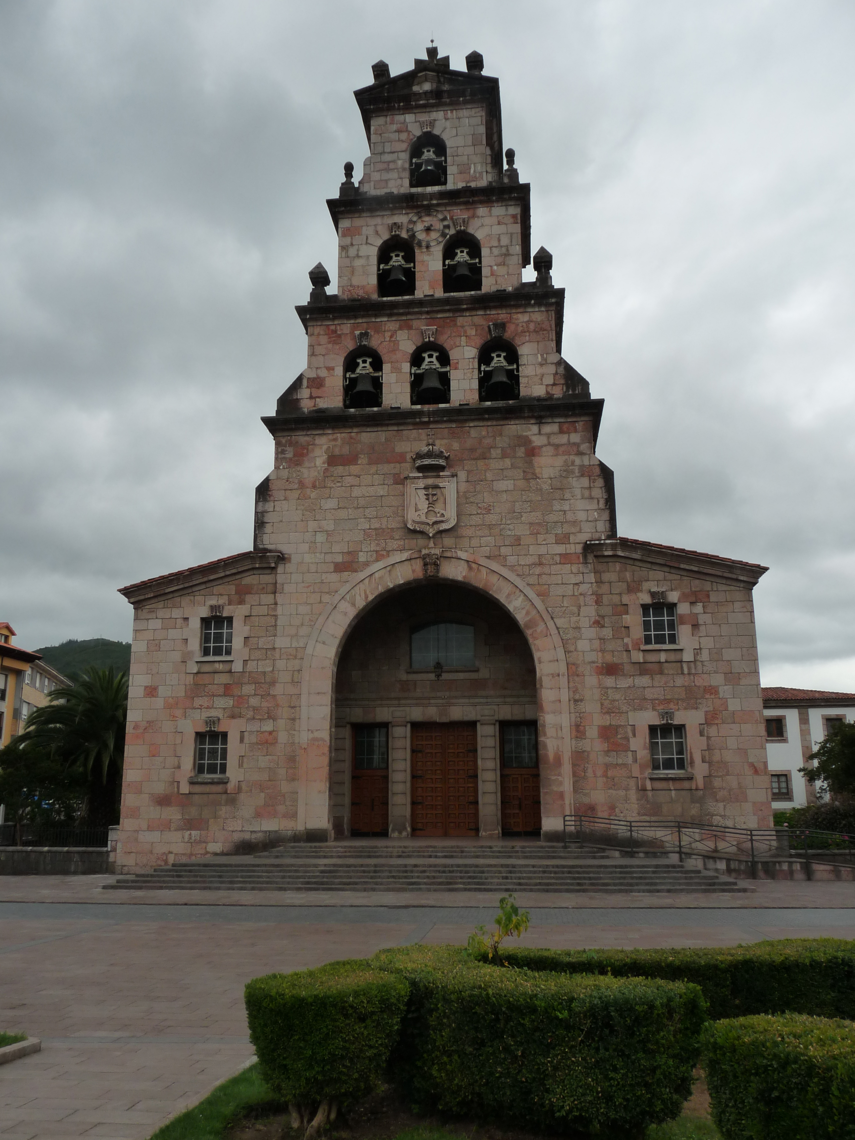 Church of Santa María, en Cangas de Onís, Asturias, Spain.